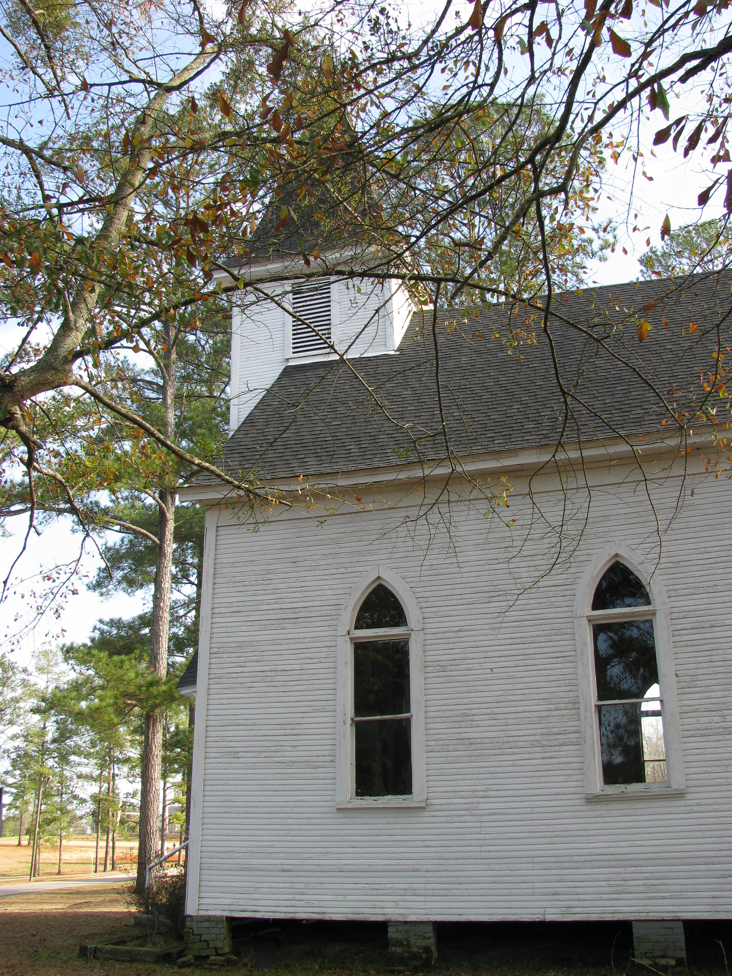 I took this picture a few days ago as a cemetery-separator -- to show where on the camera card a new cemetery began. But in looking at it now, I kind of like it as a picture in its own right. Montrose Presbyterian Church, Jasper County, Mississippi.